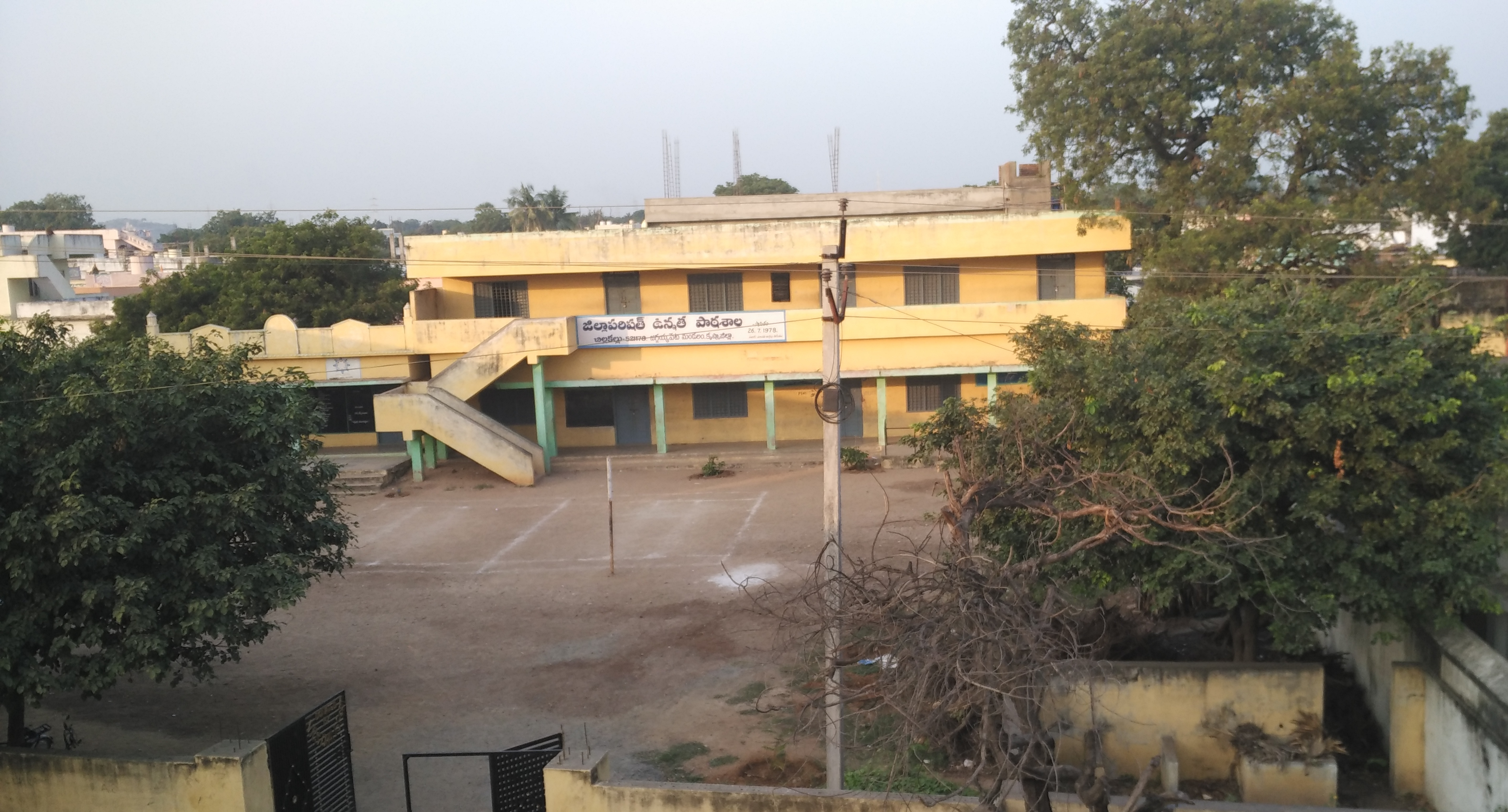 ZP High School in Chillakallu Village, Jaggayyapet Mandal of Krishna District